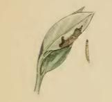 Stainton’s Natural History of the Tineina (1855–1873): Anacampsis temerella a sprig of Salix eaten by larva